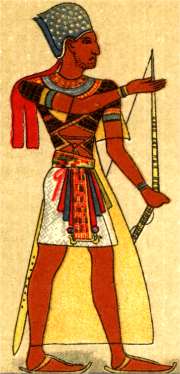 Egyptian king